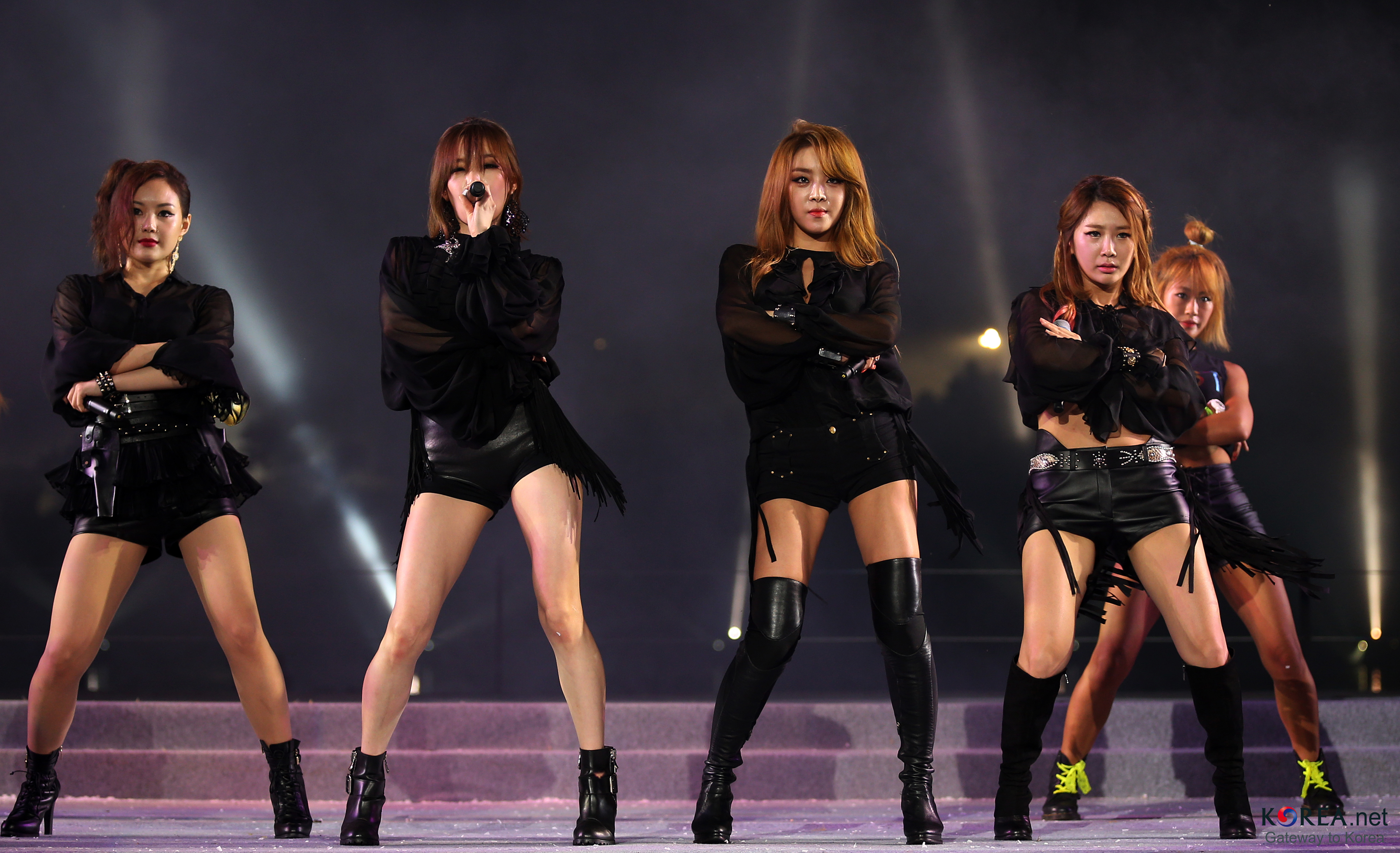 The 2013 World Rowing Championships. The opening ceremony. K-POP group Brown Eyed Girls performs to celebrate the 2013 World Rowing Championship.